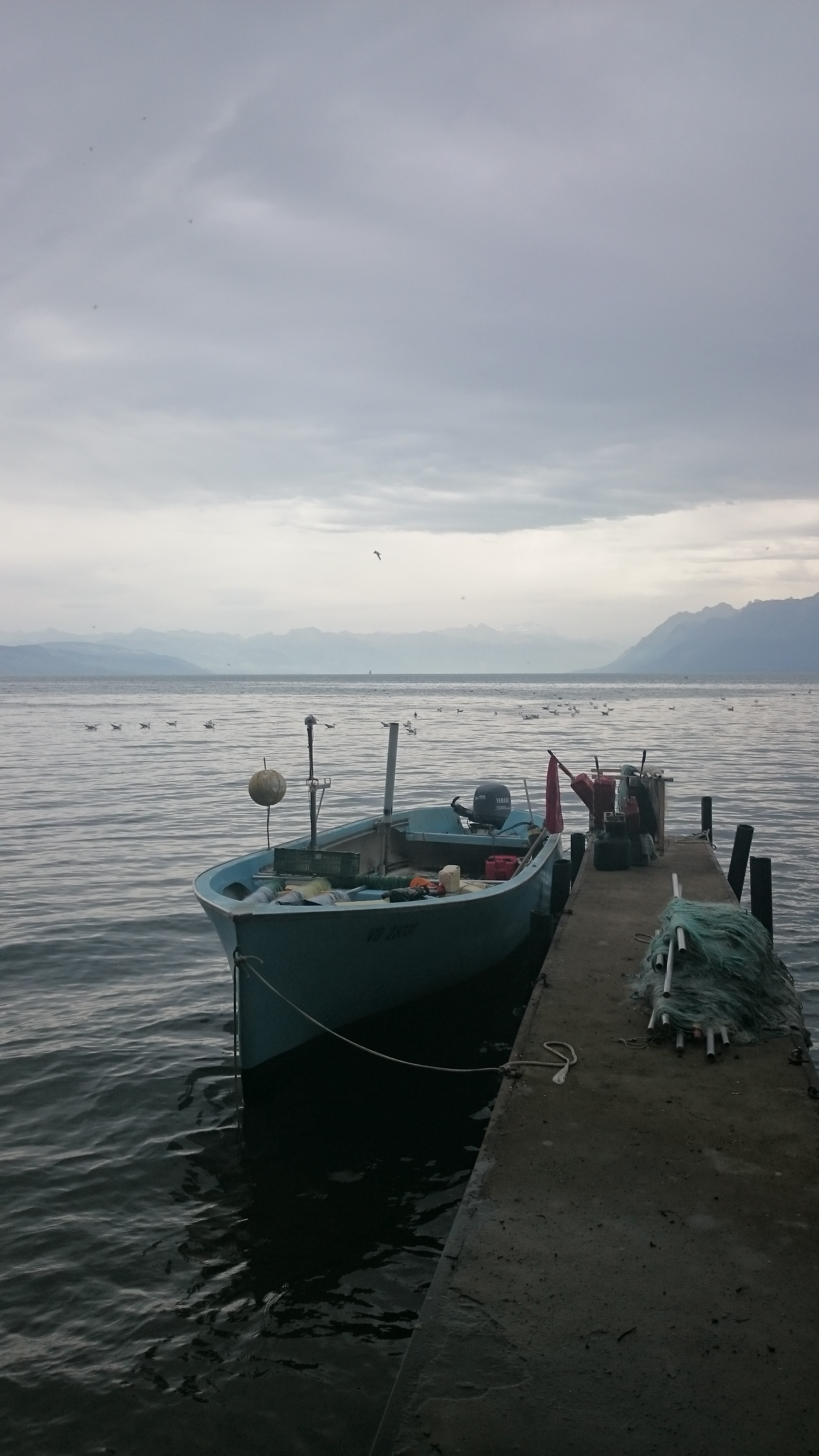 Tolochenaz 110717